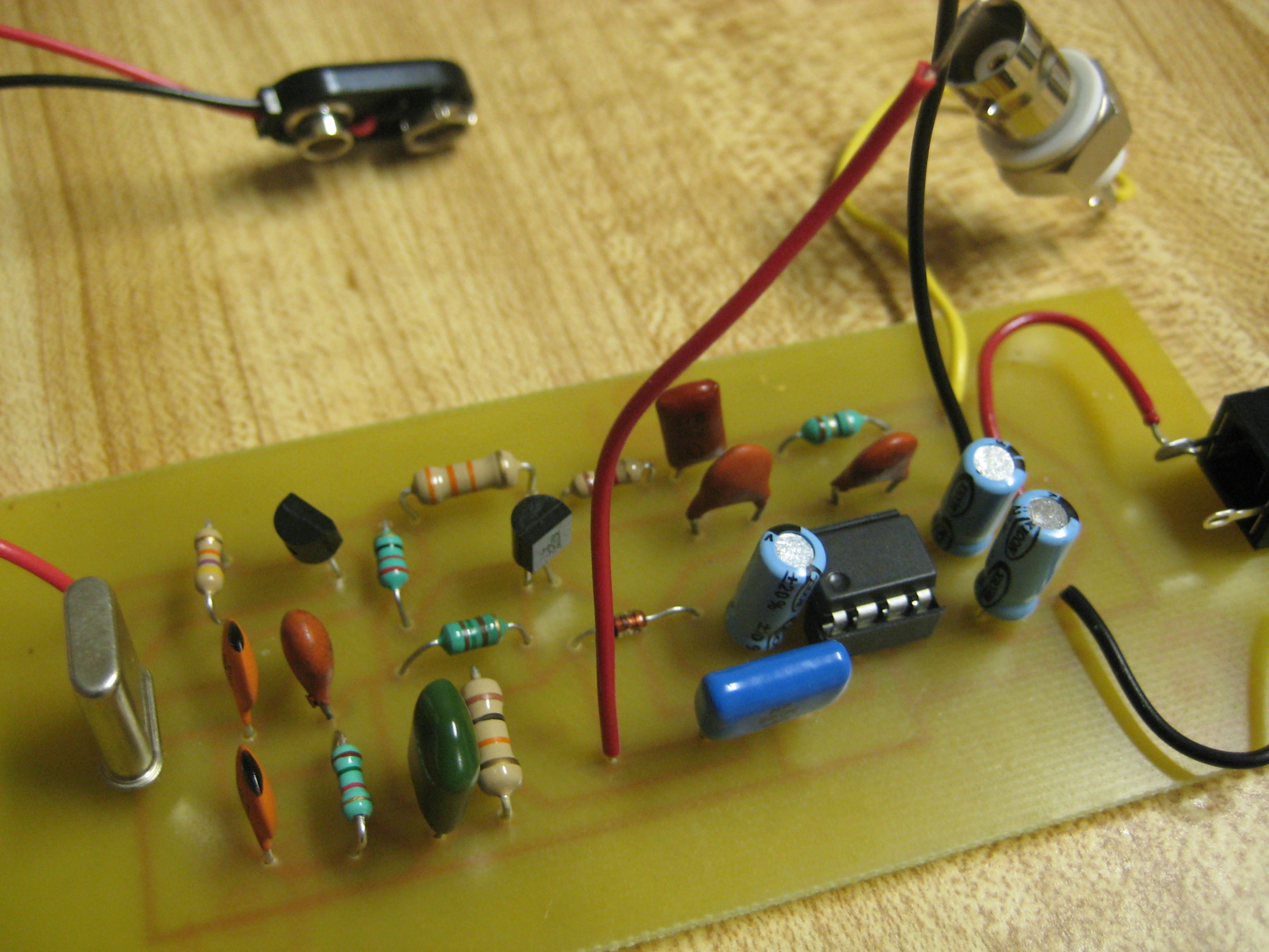 After about a month of work, tonight things finally paid off. My little QRP rig sprang to life with nary a puff of magic smoke! I immediately heard a bunch of CW signals as soon as I popped in my headphones. Most were off frequency but there were a couple that were loud enough to make out. I owe a tremendous amount of thanks to the guys from qrp-l, as well as Jonathan, KC7FYS. Without their input and encouragement this thing would still be an EAGLE schematic. Left to do: Find an enclosure Solder on the mono phone jack for the keyer Install the power switch Update: I wanted to wait until I confirmed it, but the first station heard on the new rig was DX! I copied VE2ER in Quebec calling CQ around 11PM EDT! This morning (7/2) I had solid copy of N4ABM in Reston, VA for about 15 minutes!